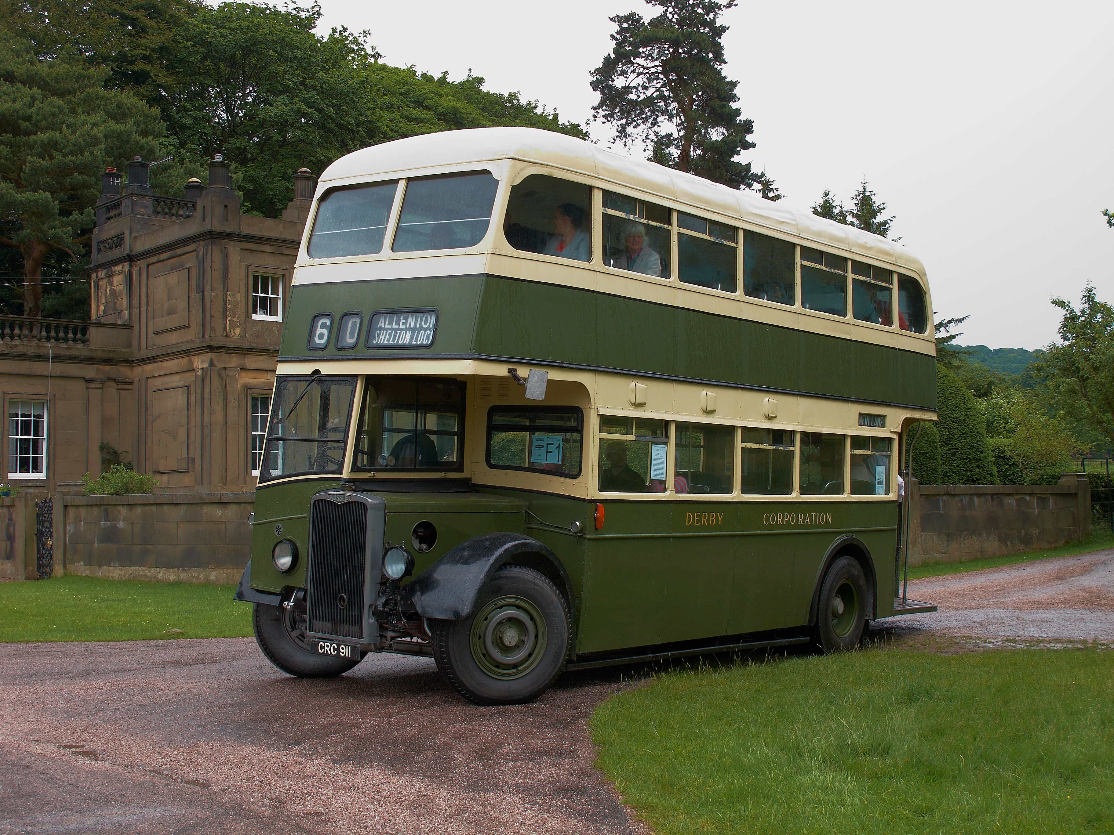 Owned by Derby City Council